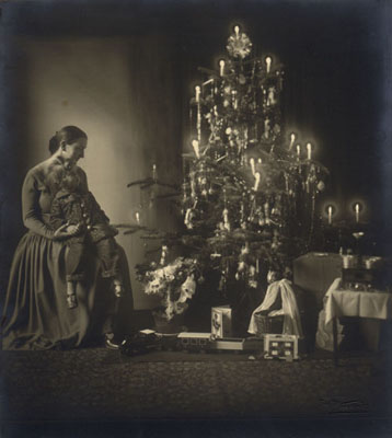 Christmas